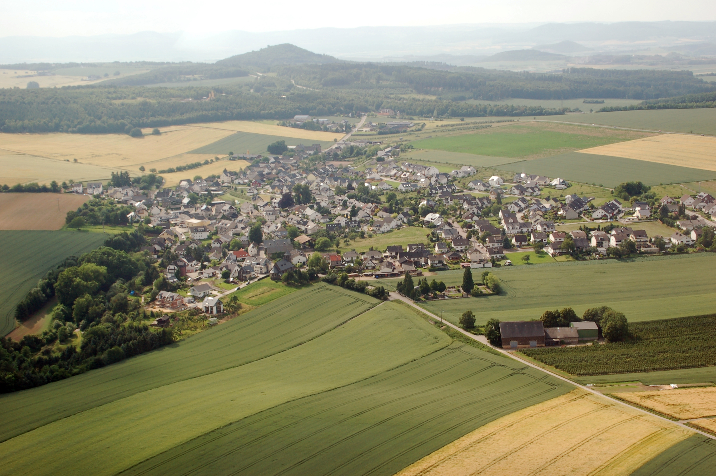 Aerial photograph of Wolken, Rhineland-Palatinate, Germany